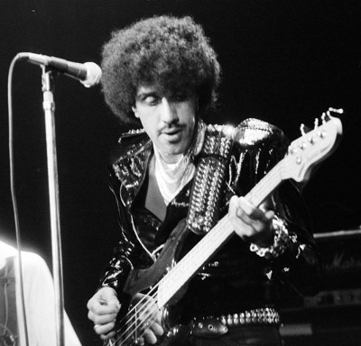 Phil Lynott, Thin Lizzy, Chateau Neuf, Oslo, Norway